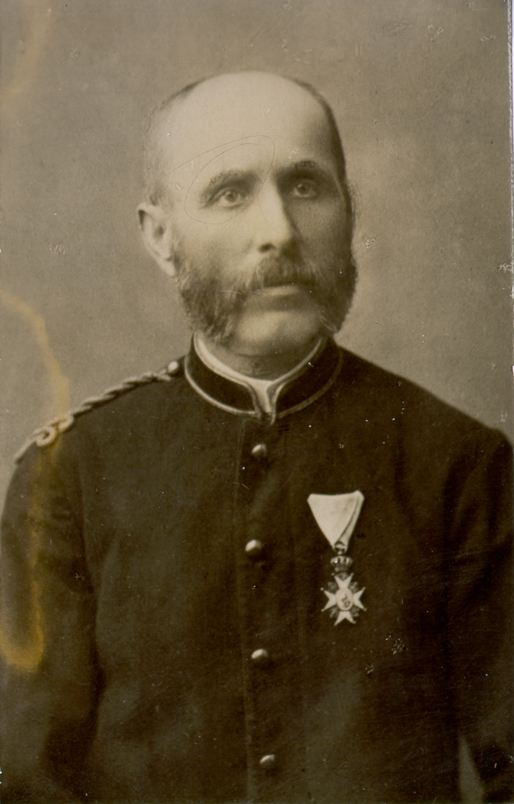 Davorin Jenko (1835-1914), slovene conductor and composer.